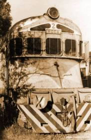 CM2 diesel locomotive manufactured by Argentine company FADeL, nicknamed Justicialista.